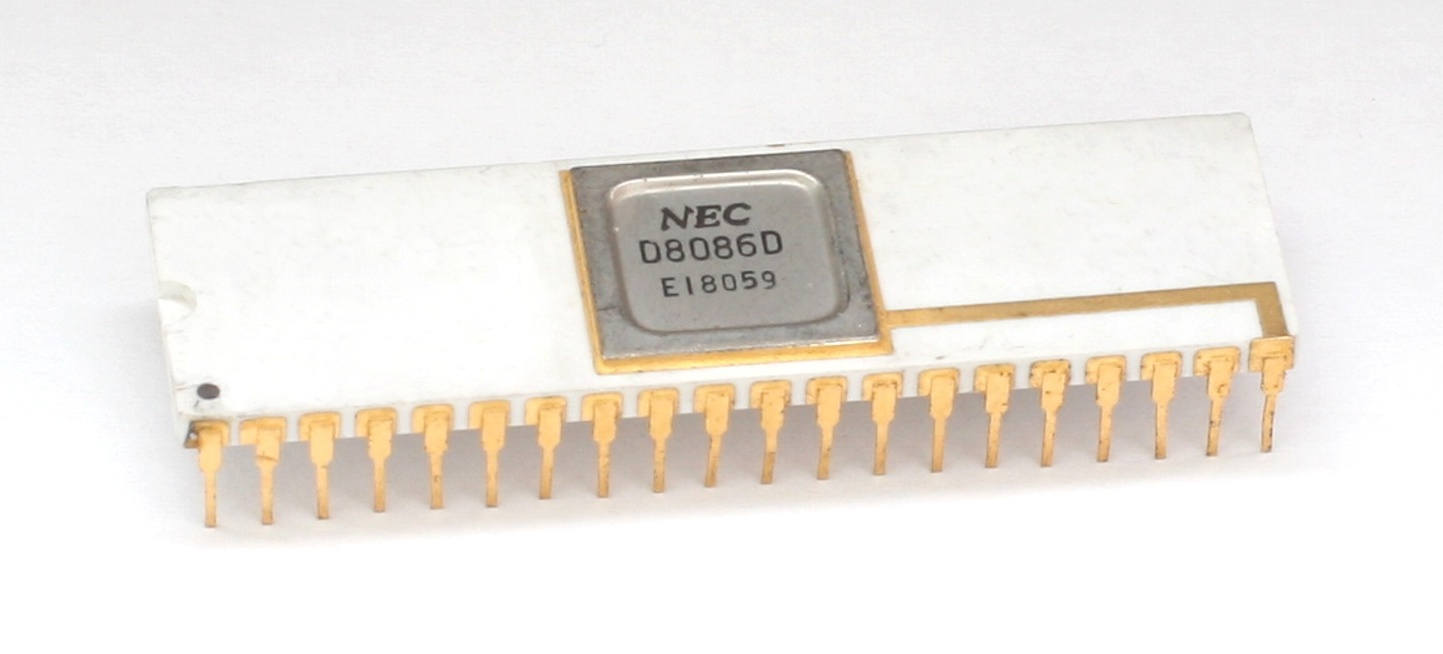 CPU NEC µPD8086 (Intel i8086)